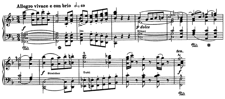 The theme of the first movement of Beethoven's Symphony No. 8 in F, transcribed by Franz Liszt.